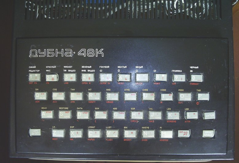 A Soviet clone of the ZX Spectrum computer, based on a Z80 clone.